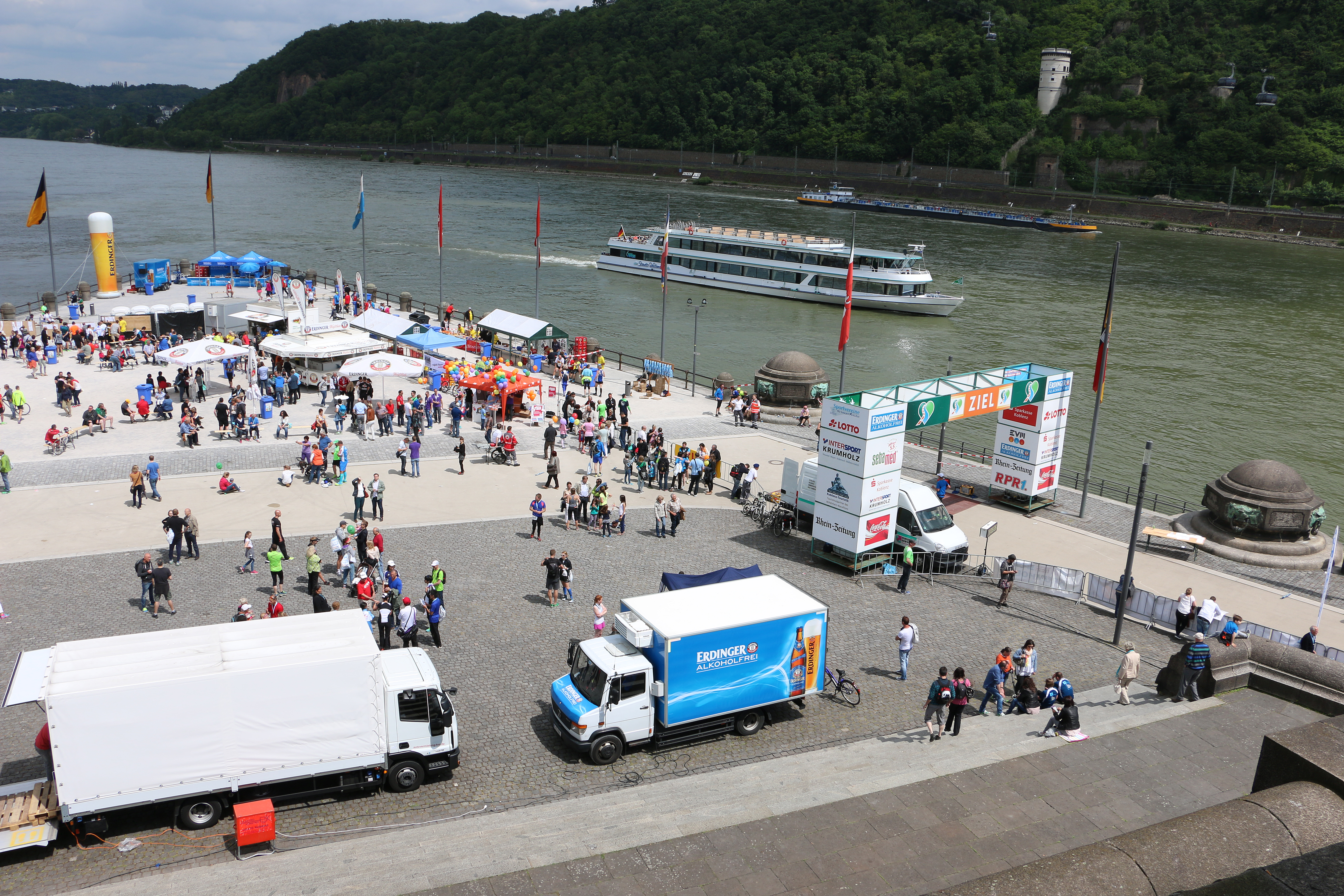 Mittelrhein-Marathon in Koblenz